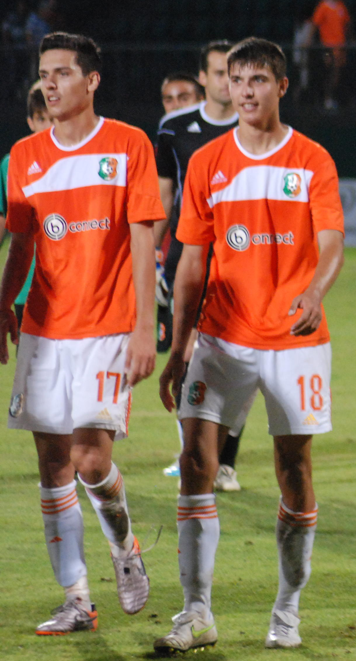 Twins Georgi and Iliya Milanov, Players of PFC Litex Lovech